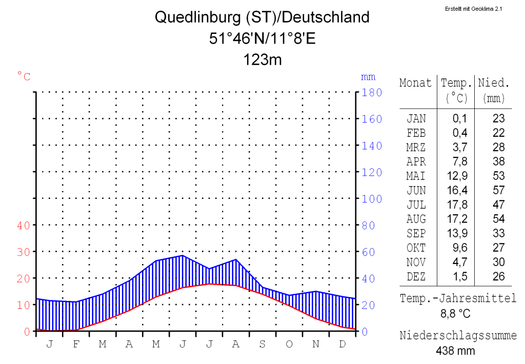 climate chart in the format by Walter and Lieth, metric, °Celsisus and millimeters, made with Geoklima 2.1